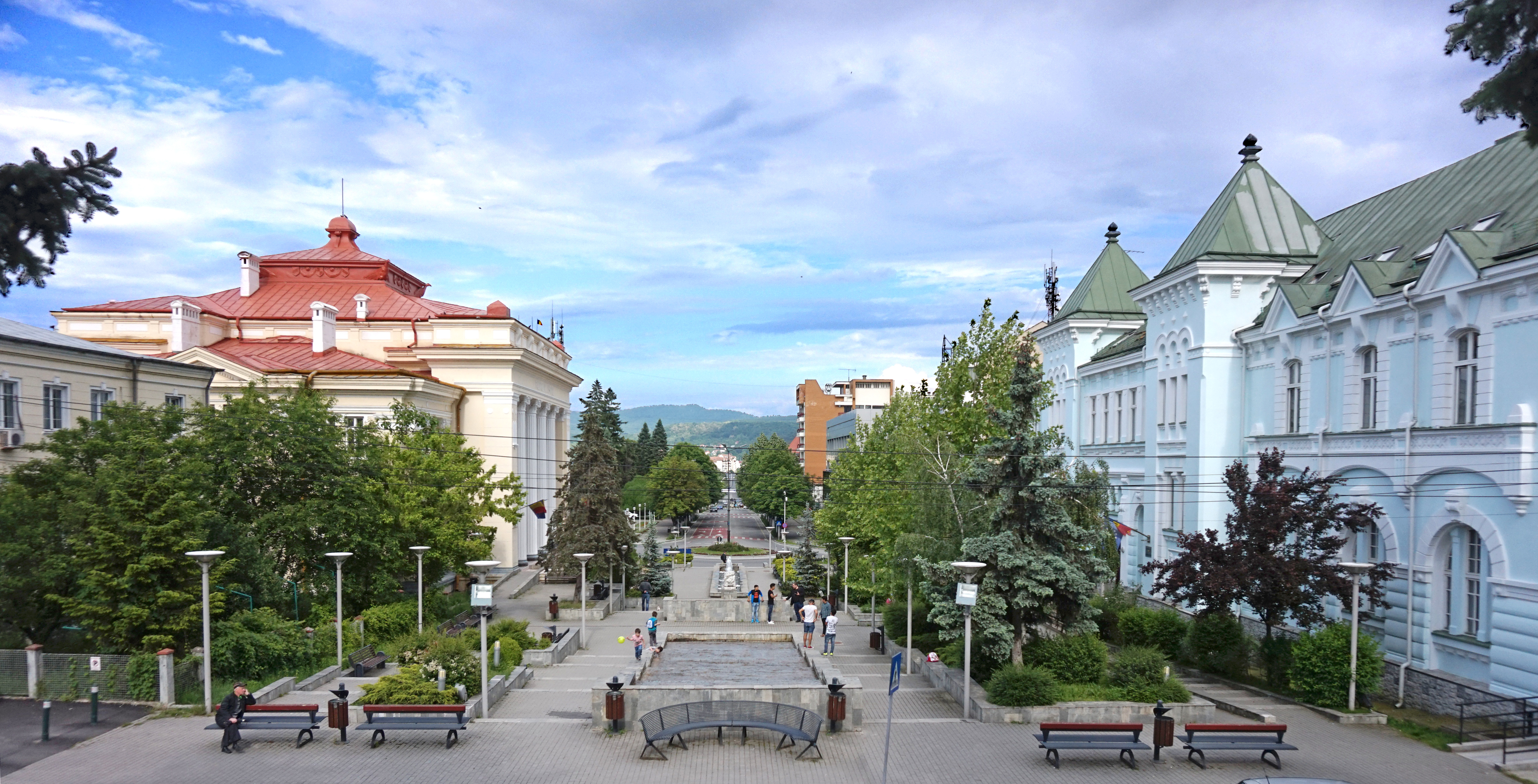 Scuarul Revoluției in Ramnicu Valcea, Romania.This photograph was taken with a Sony ILCE-5000